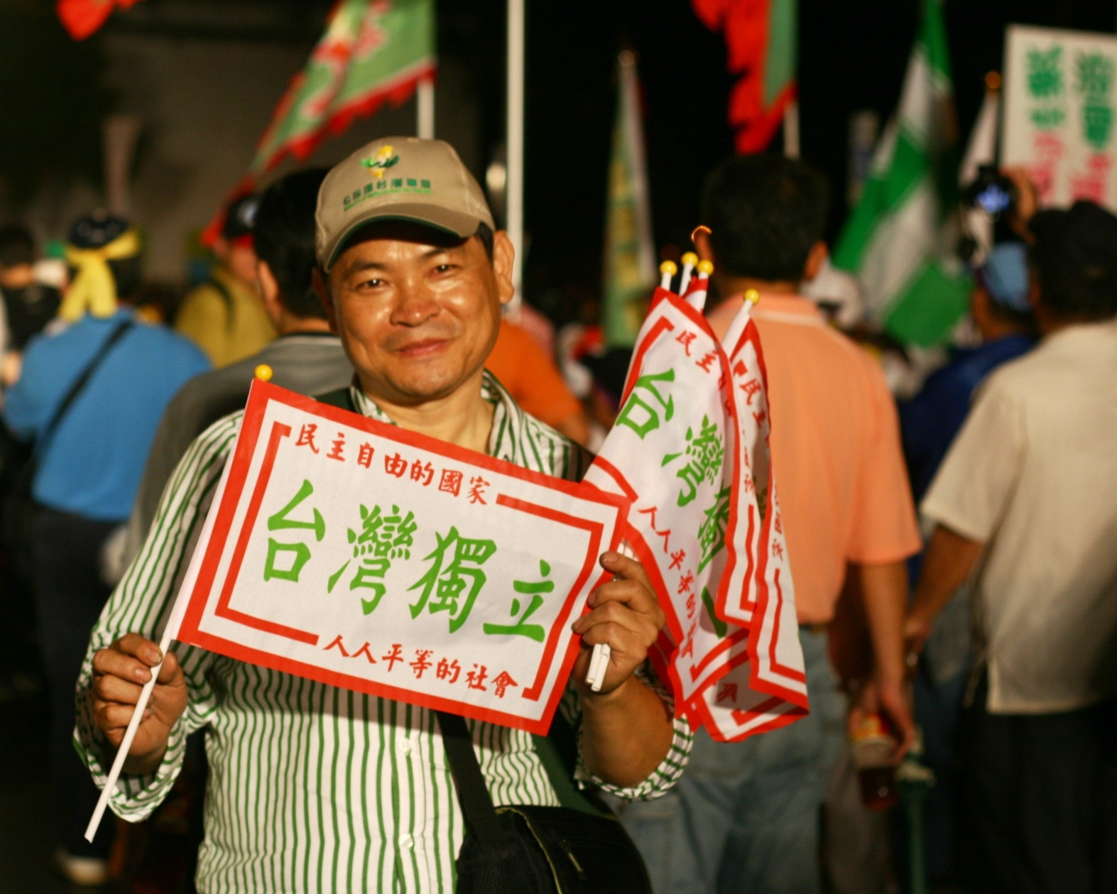 2012年519嗆馬踹共遊行 Anti-Ma Ying-jeou Demonstration in Taipei, TAIWAN